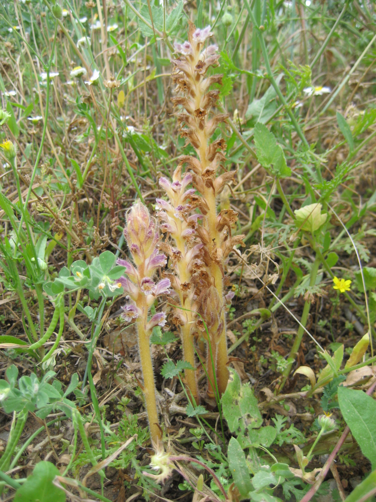 Orobanche pubescens, Chios, Greece. Near Olympi